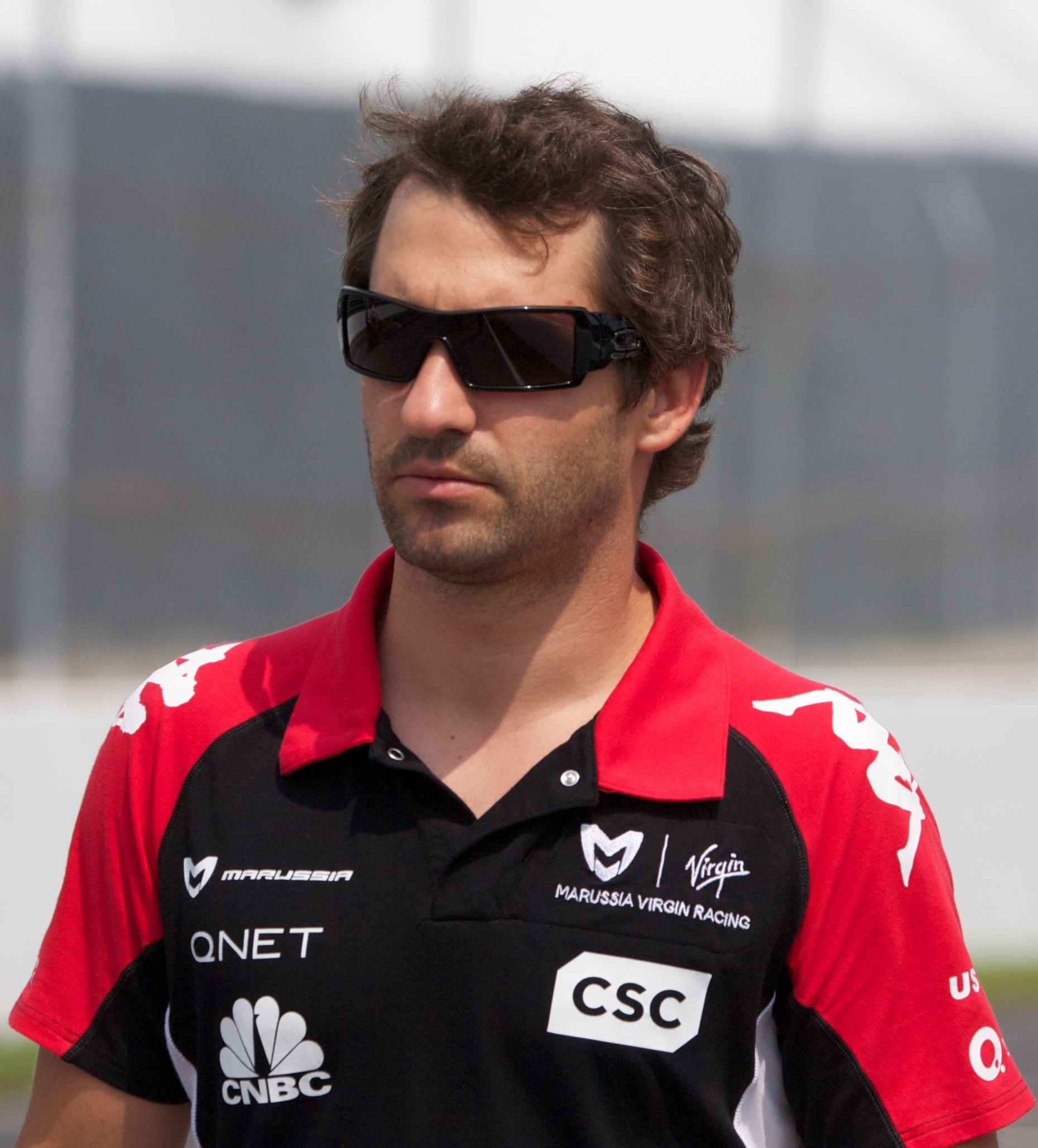 Timo Glock at the 2011 Canadian GP